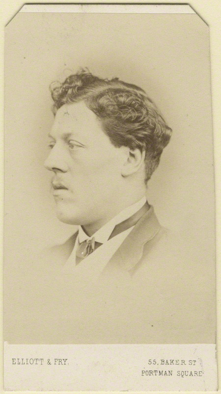 Photograph of Charles Augustus Howell. Albumen carte-de-visite. 3 1/2 in. x 2 1/4 in. (90 mm x 58 mm) image size.